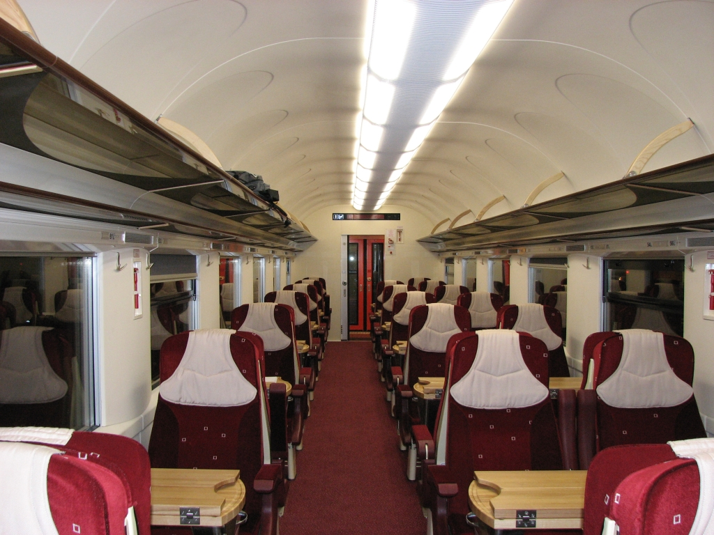 MÁV IC3 passanger coaches